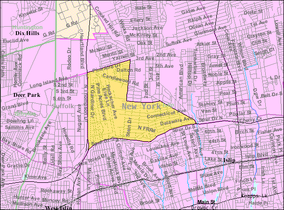 North Bay Shore CDP in 2000 - 7 miles across - contains hamlet of Pine Aire and part of hamlet of Brentwood. For 2010 census, area west of Candlewood Rd was added.